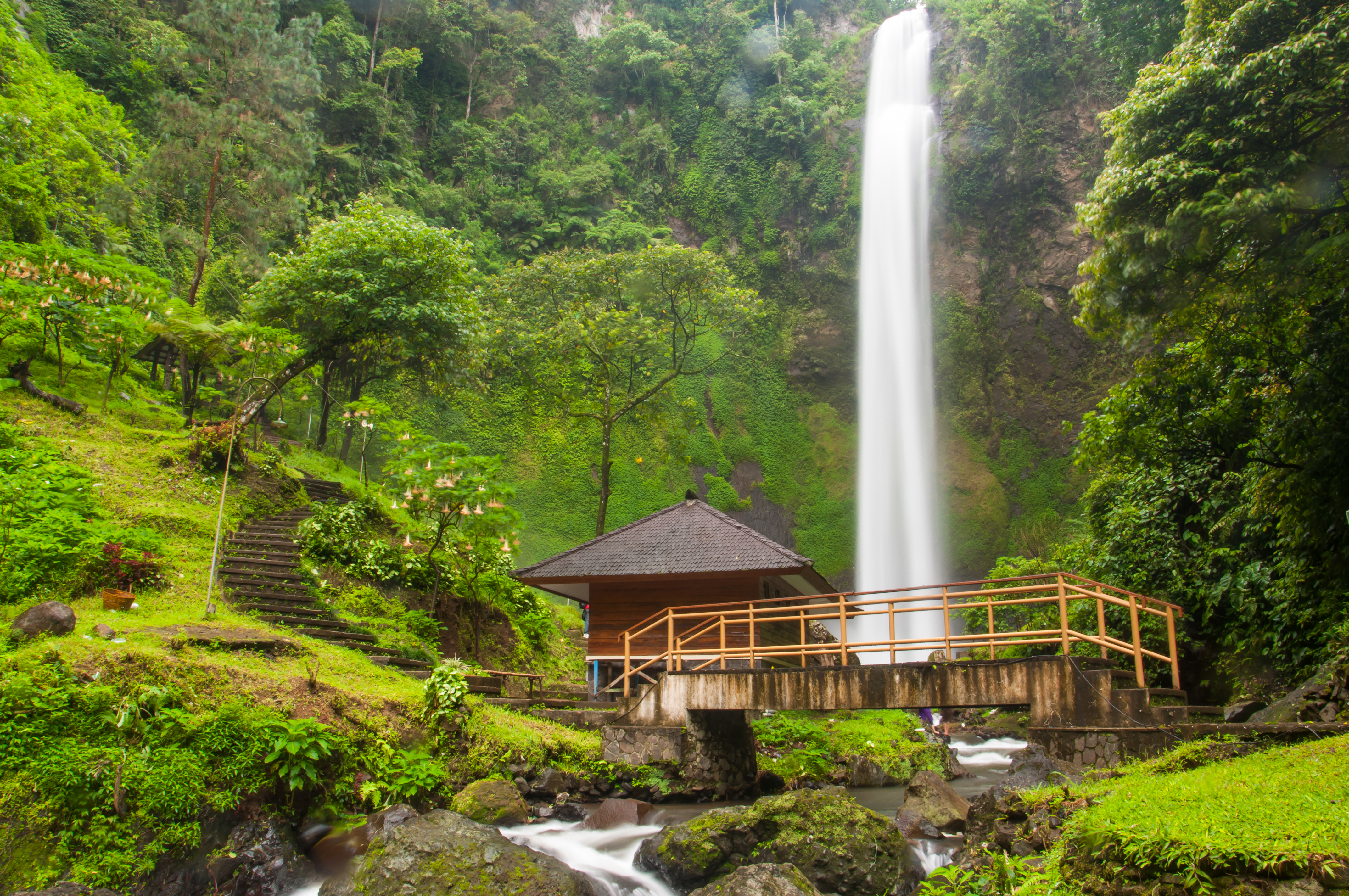 Curug Cimahi is a waterfall located in the area of ​​Cisarua, West Bandung, West Java.